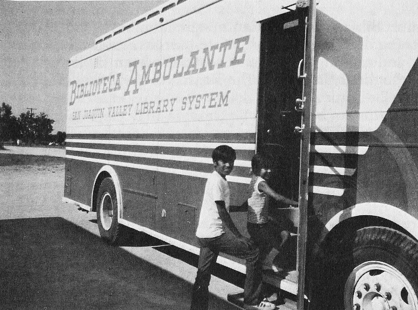 San Joaquin Valley "Traveling Library".